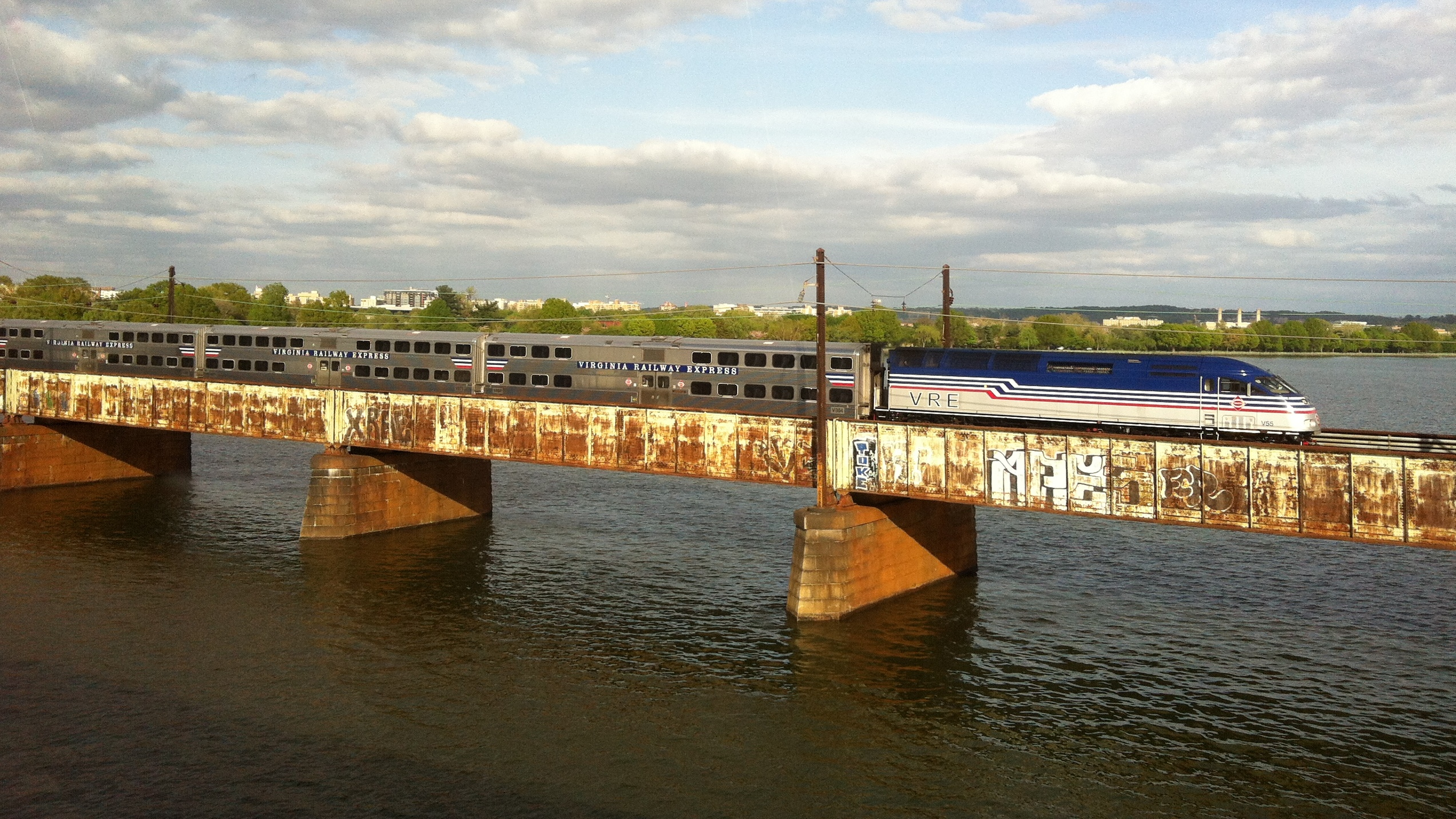 View of a Virginia Railway Express passenger train crossing the 14th Street Bridge over the Potomac River. View looking downstream (southeast}. The train is leaving Washington, DC and approaching Arlington, Virginia.